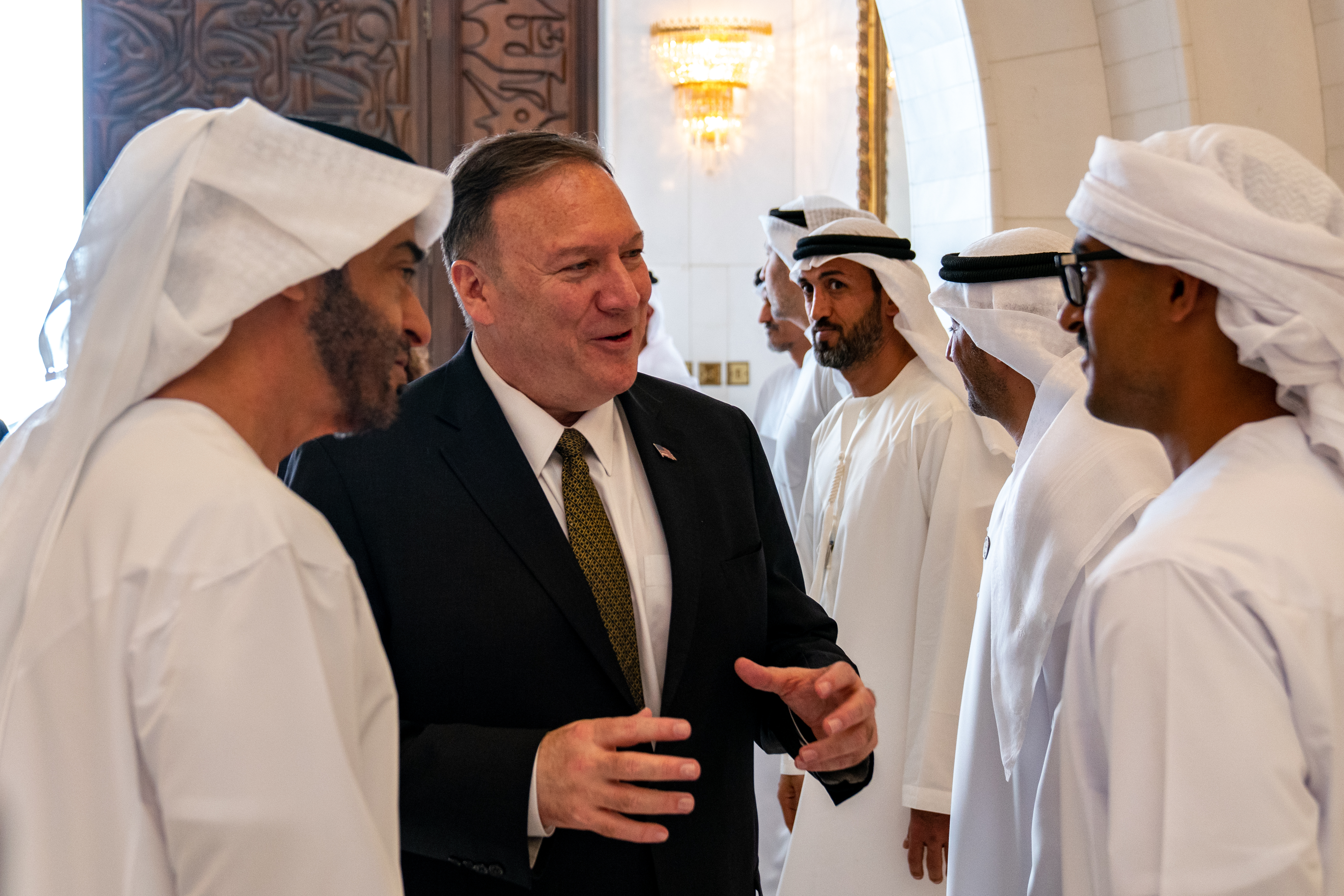 U.S. Secretary of State Michael R. Pompeo meets with Abu Dhabi Crown Prince Mohammed bin Zayed Al Nahyan in Abu Dhabi, United Arab Emirates, on September 19, 2019. [State Department Photo by Ron Przysucha/ Public Domain]